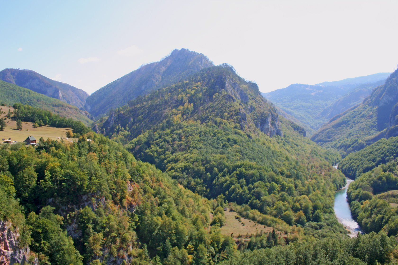 Tara Gorge, Durmitor National Park, Montenegro